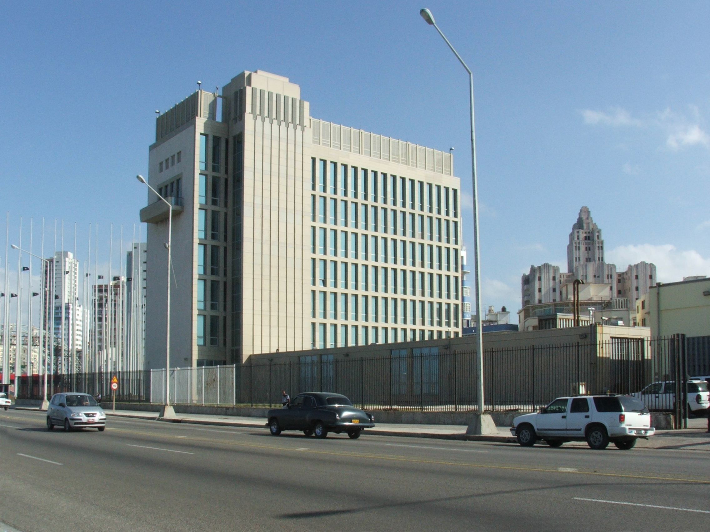 U.S. Interest section (Embassy) of the United States in La Habana - Cuba.